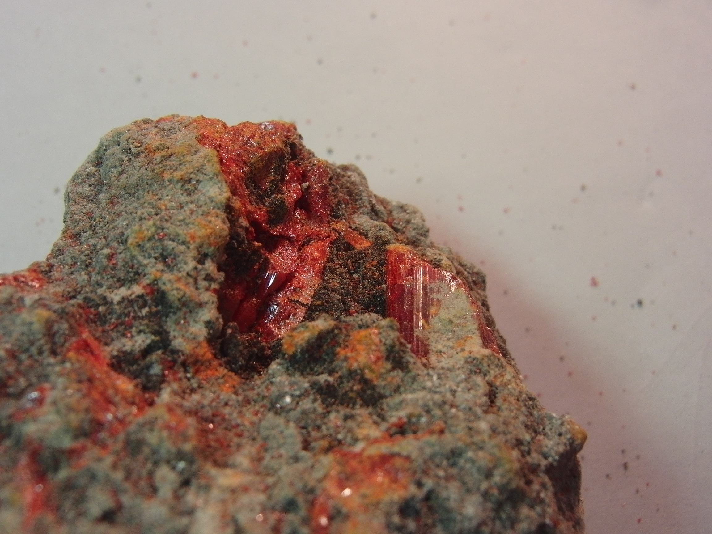 Realgar